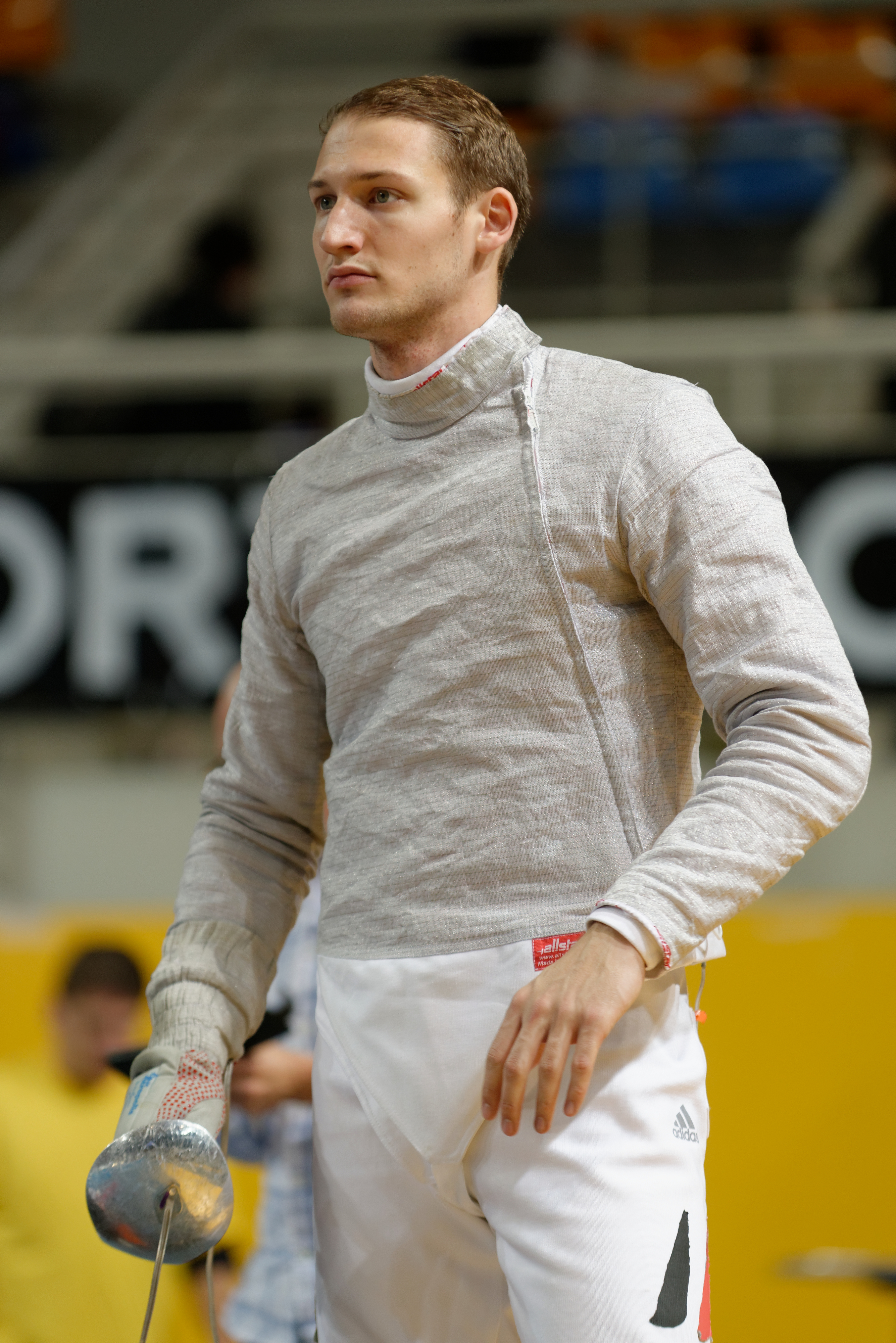 German sabre fencer Nicolas Limbach during the 3rd-league final between Souffelweyersheim and Tarbes at the French Sabre Championship. Palais des Sports in Orléans, 2013.